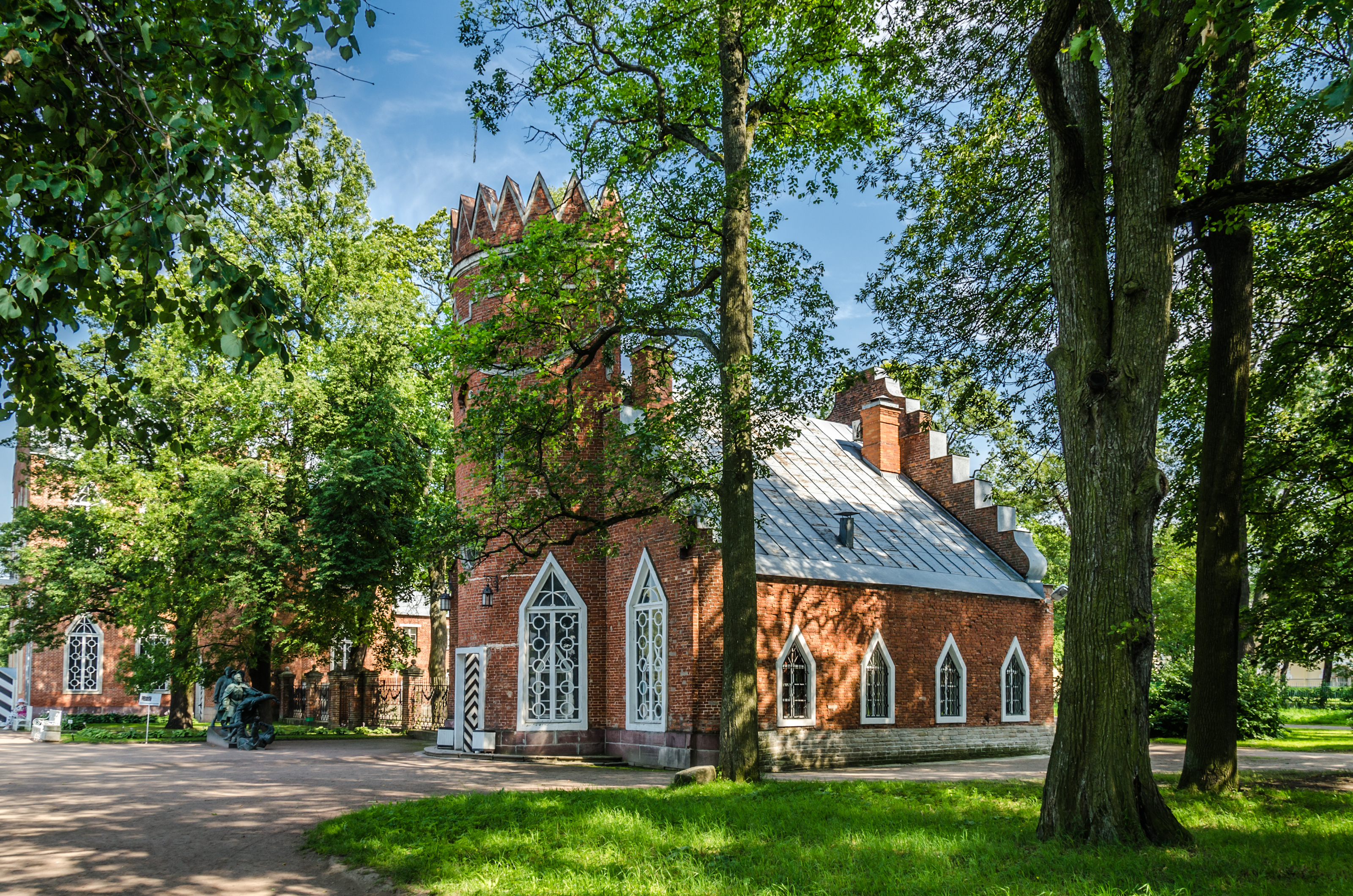 Admiralty in Catherine park of Tsarskoe Selo, Saint Petersburg